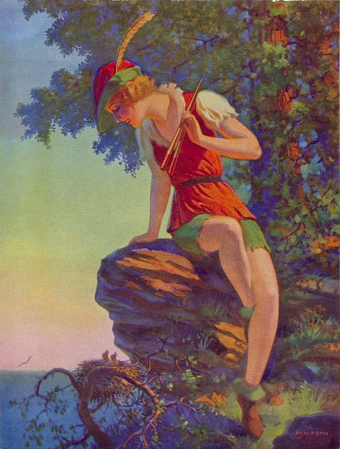 The Paradise of Peter Pan, print of painting by Edward Mason Eggleston, 1934. Published as a calendar print by the Thomas D. Murphy company of Red Oak, Iowa.